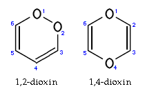 Chemical structures of Dioxin isomers. Small blue numbers show numbering of atoms in heterocycle.